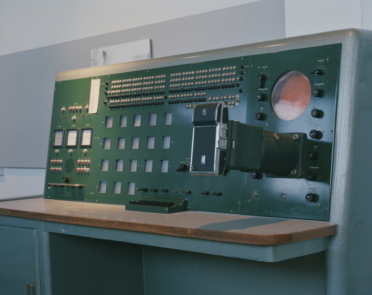 Control panel of the Swedish BESK computer